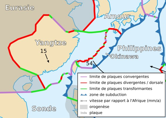 Map of the Yangtse Plate